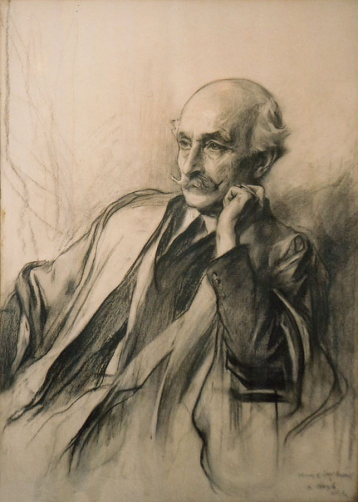 Portrait of George Henry Falkiner Nuttall (1862-1937), charcoal on cream paper, 76.2 x 54.61 cm, signed at lower right: Study of Prof. Nuttall / 1935 I. On back labelled, apparently by Nuttall: This crayon portrait of George H.F. Nuttall, Sc.D, / F.R.S. Emeritus Fellow of Magdalen College, Emeri / tus Professor of Biology, Cambridge, was drawn in 3 sittings (about 9 hours ) by his friend Philip / A. Laszlo de Lombos in his studio in London, on January 3-5, 1935. / Mr. de Laszlo presented the portrait to the college in May 1935. The drawing is held at Magdalene College, University of Cambridge.